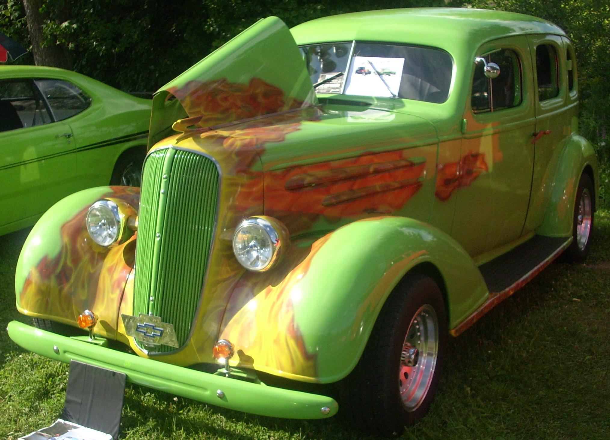 1936 Chevrolet Street Rod photographed at the Rassemblement Rigaud Car Show (Chevrolet Standard Series FC).